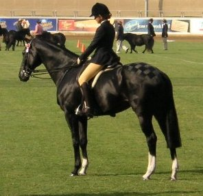 Sydney Royal Easter Show